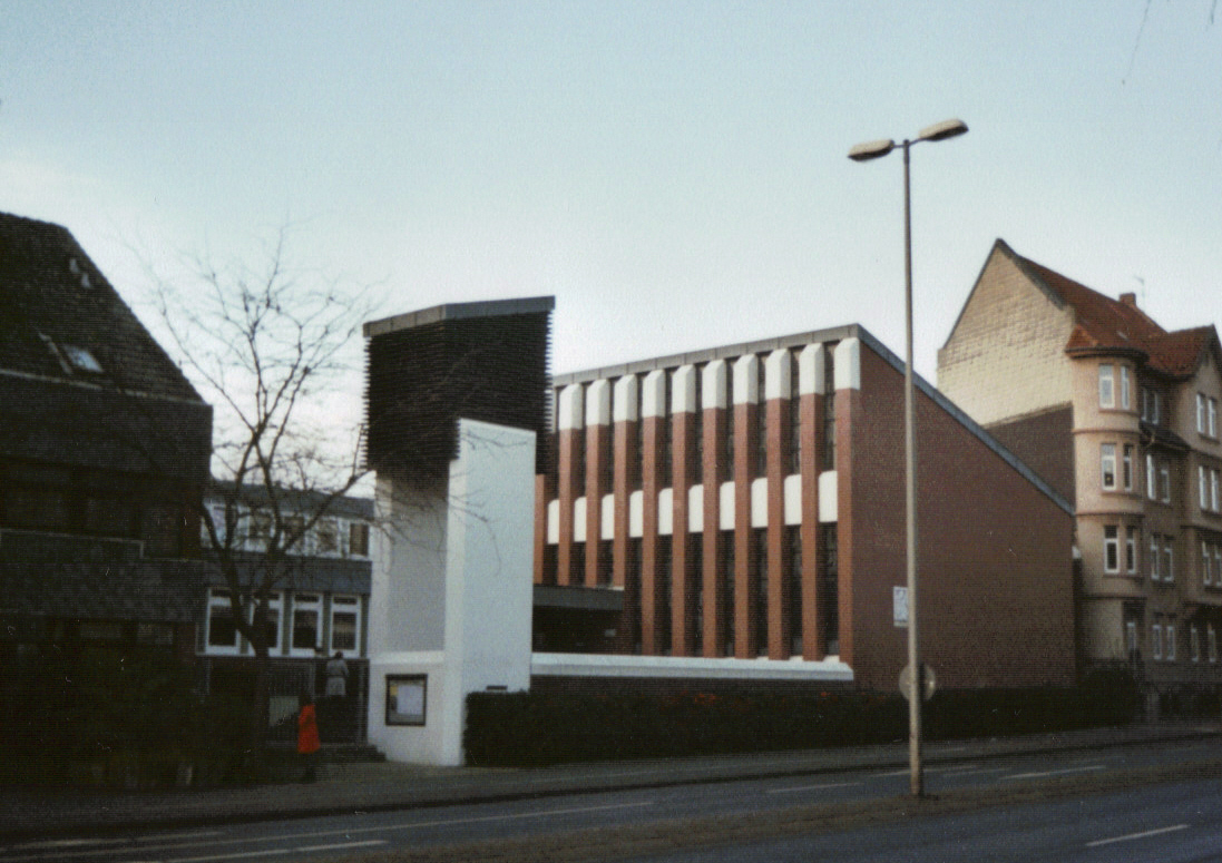 Saint Joseph Church, Hildesheim